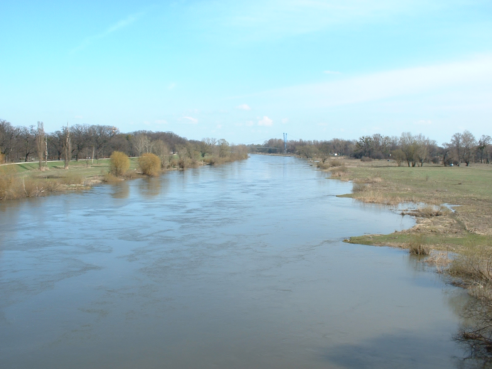 Channelled Upper Odra River Bed in Wrocław, Poland